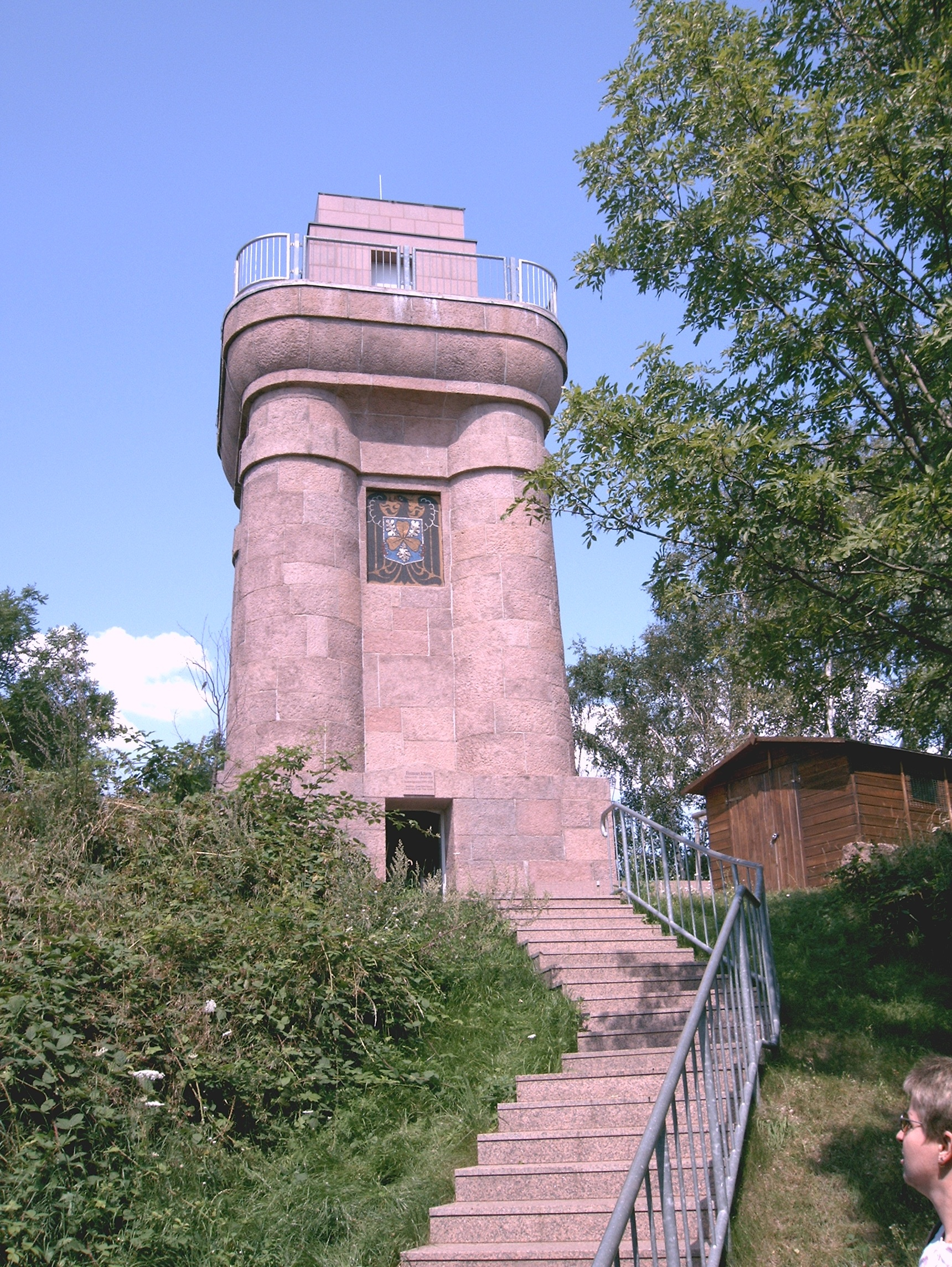 The Bismarck tower located in Halle (Saxony-Anhalt, Germany).